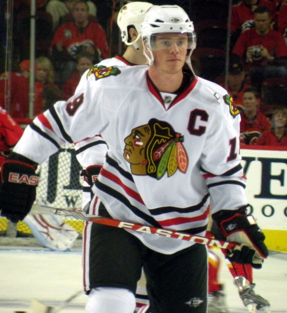 Chicago Blackhawks captain Jonathan Toews during warm up prior to a National Hockey League playoff game against the Calgary Flames, in Calgary.